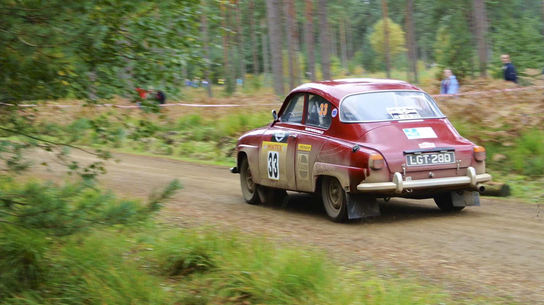 A super day out at the rally - and the rain held off too! Various classes of cars were racing from historic classics right up to current top spec factory cars. For sheer fun and exuberance nothing can beat the sight of a well driven rear wheel drive Escort and who does not enjoy the classic Mini, or a Saab? All photos taken with the Nikon V1 camera in S mode, a slowish shutter speed was used to enable panning with a blurred background.